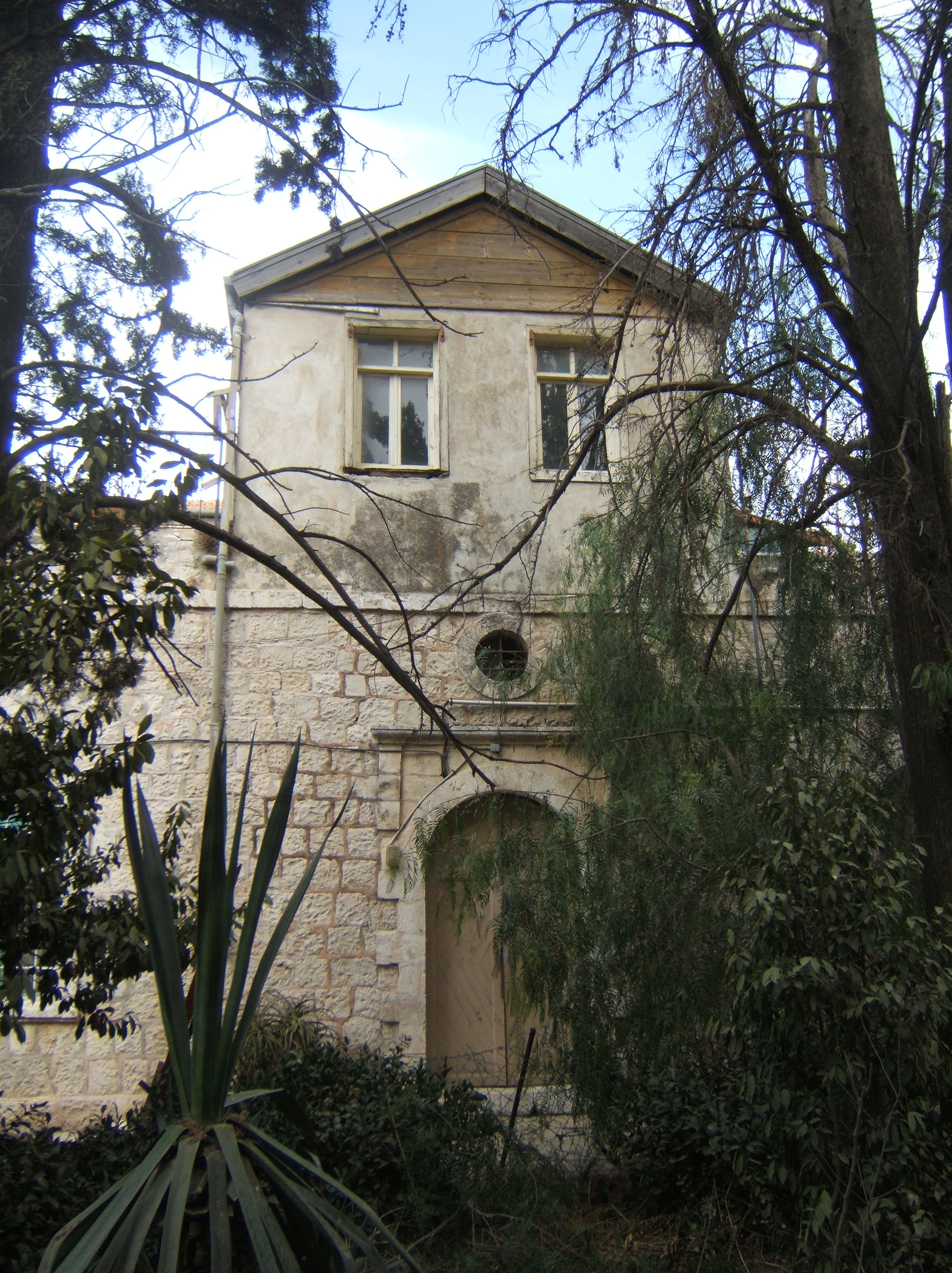 64 Street of Prophets, Jerusalem